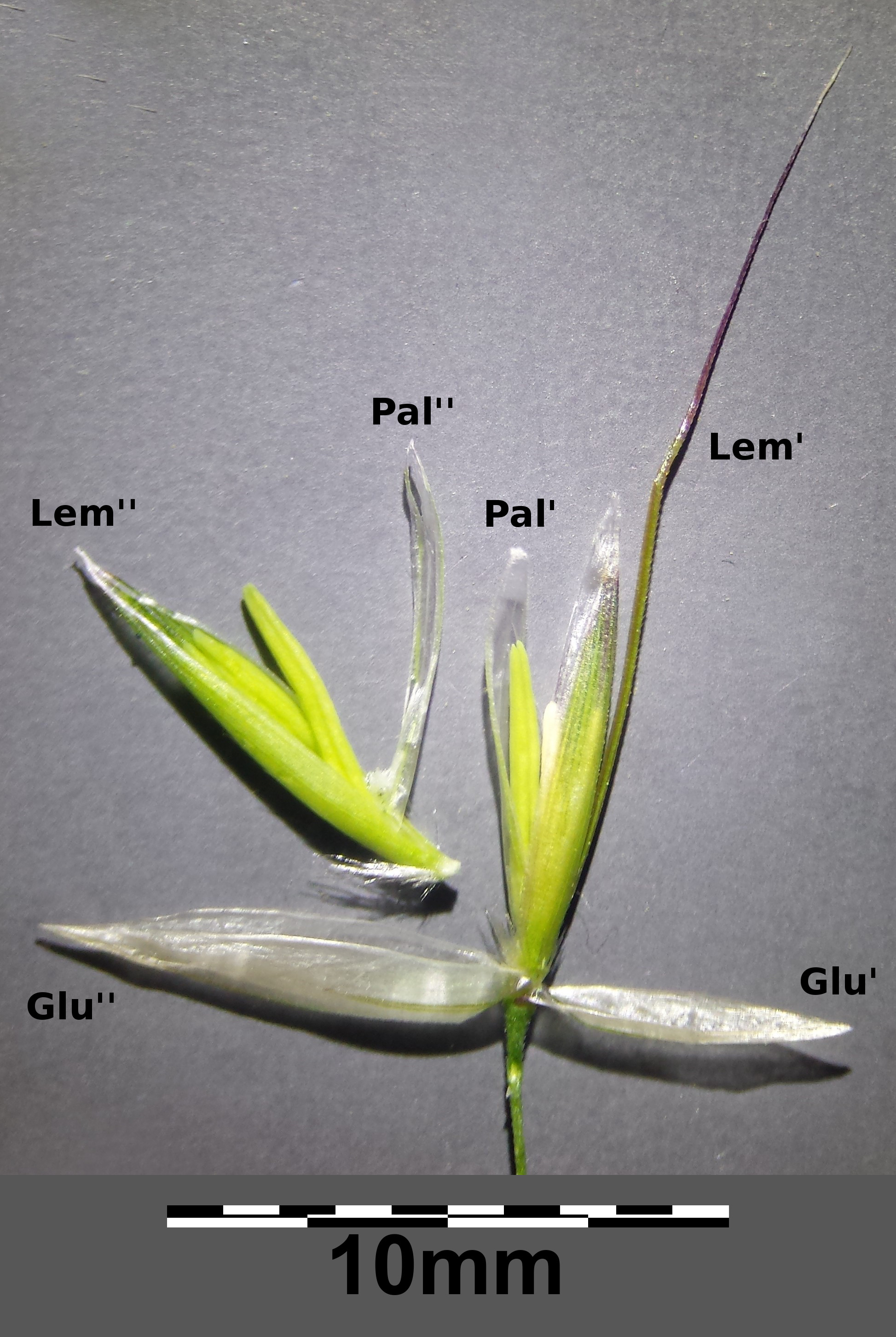 Spikelet Glu = Gluma Lem = Lemma Pal = Palea Taxonym: Arrhenatherum elatius ss Fischer et al. EfÖLS 2008 ISBN 978-3-85474-187-9 Location: Marchfeldkanal near Groß-Jedlersdorf, Wien-Floridsdorf - ca. 160 m a.s.l. Habitat: fallow land